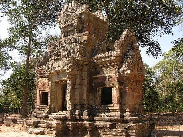 Angkor. Chao Say Tevoda